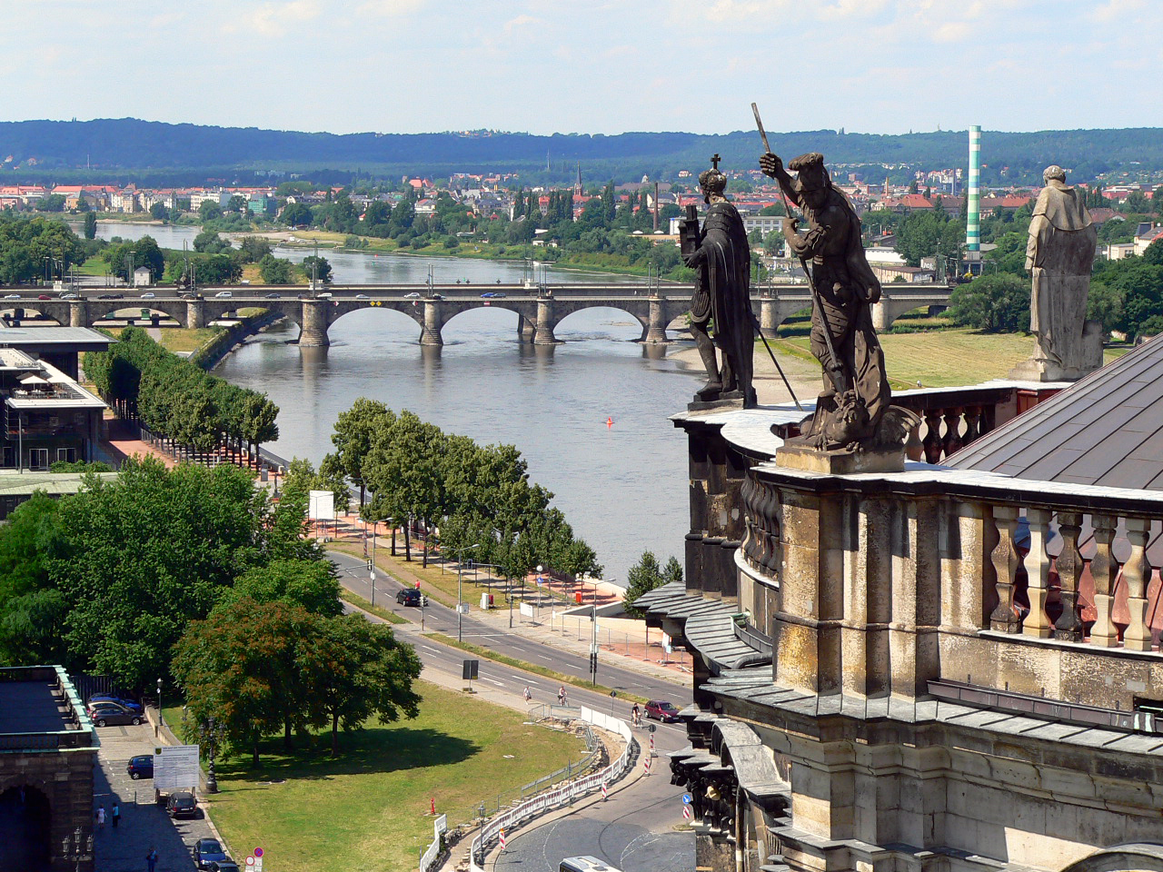 Hofkirche Dresden